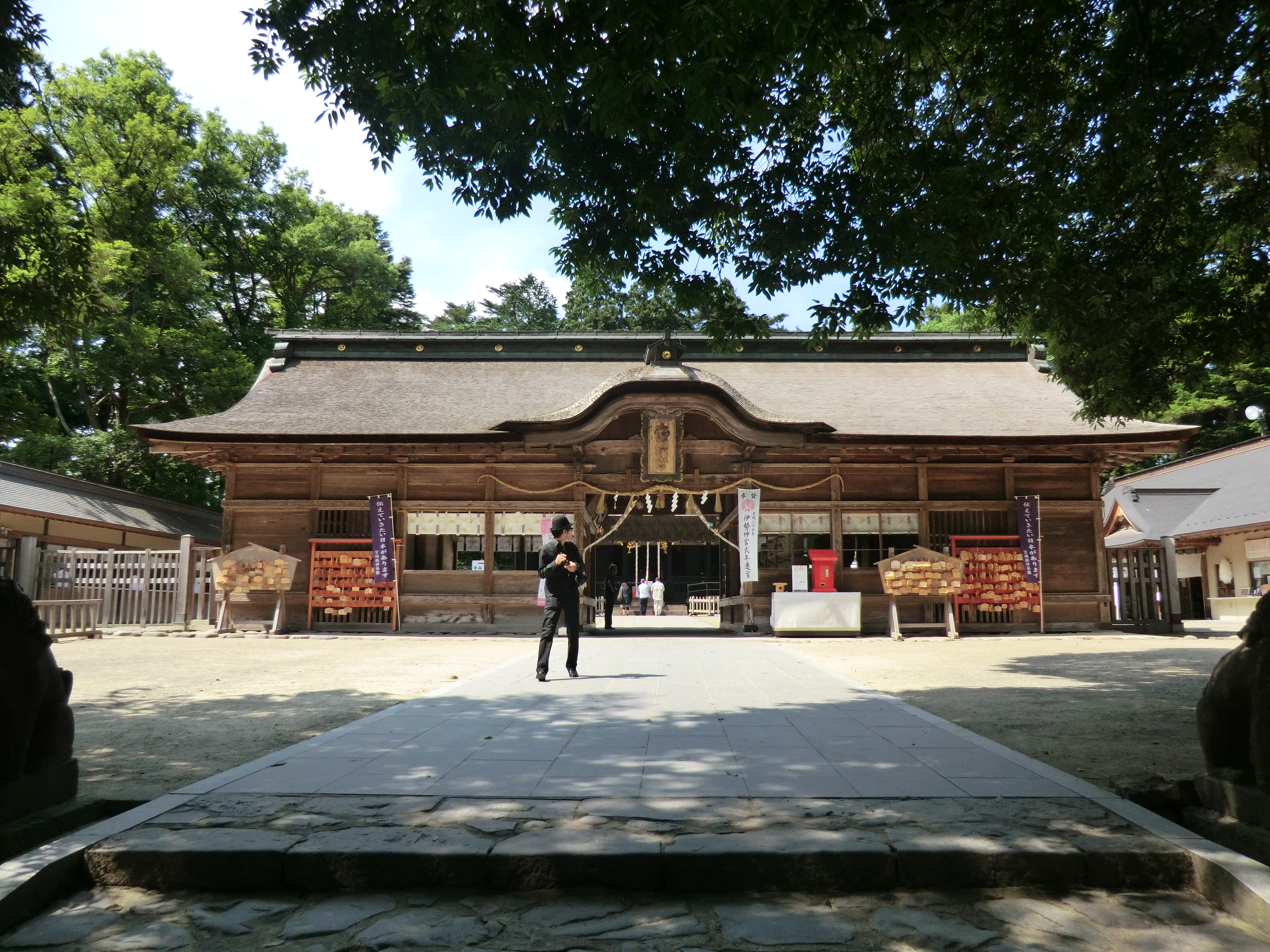 Nagatoko of Ōsaki Hachiman-gū in Sendai, Miyagi, Japan